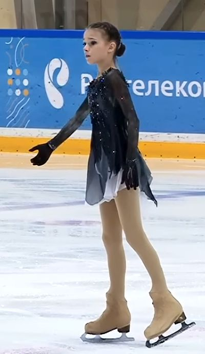 Anna Shcherbakova at the 2017 Russia's Cup Final